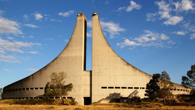 This media shows a South African Protected Site with SAHRA file reference [1].